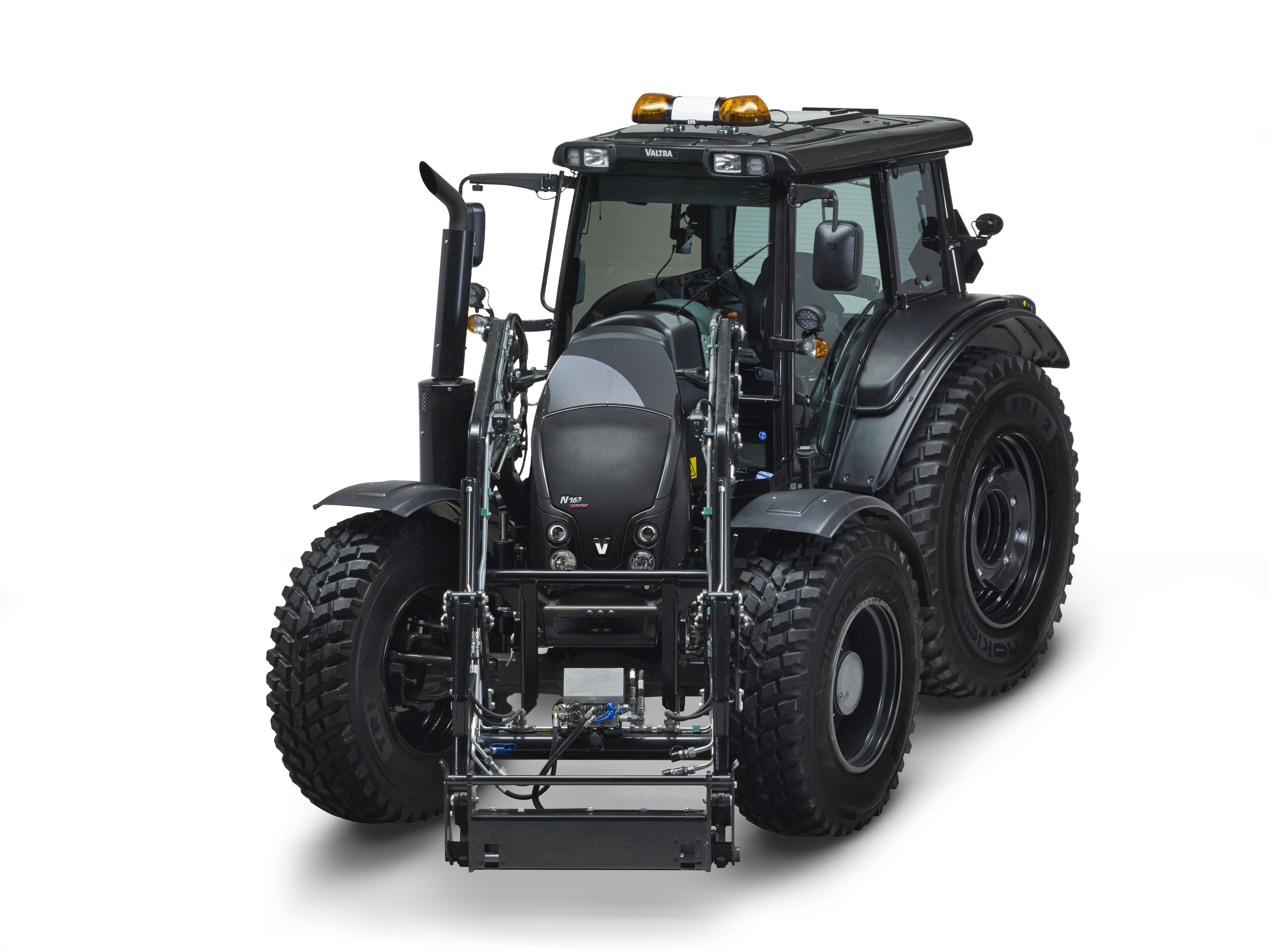 Articulated Valtra NX tractor has both front-axle and chassis steering.